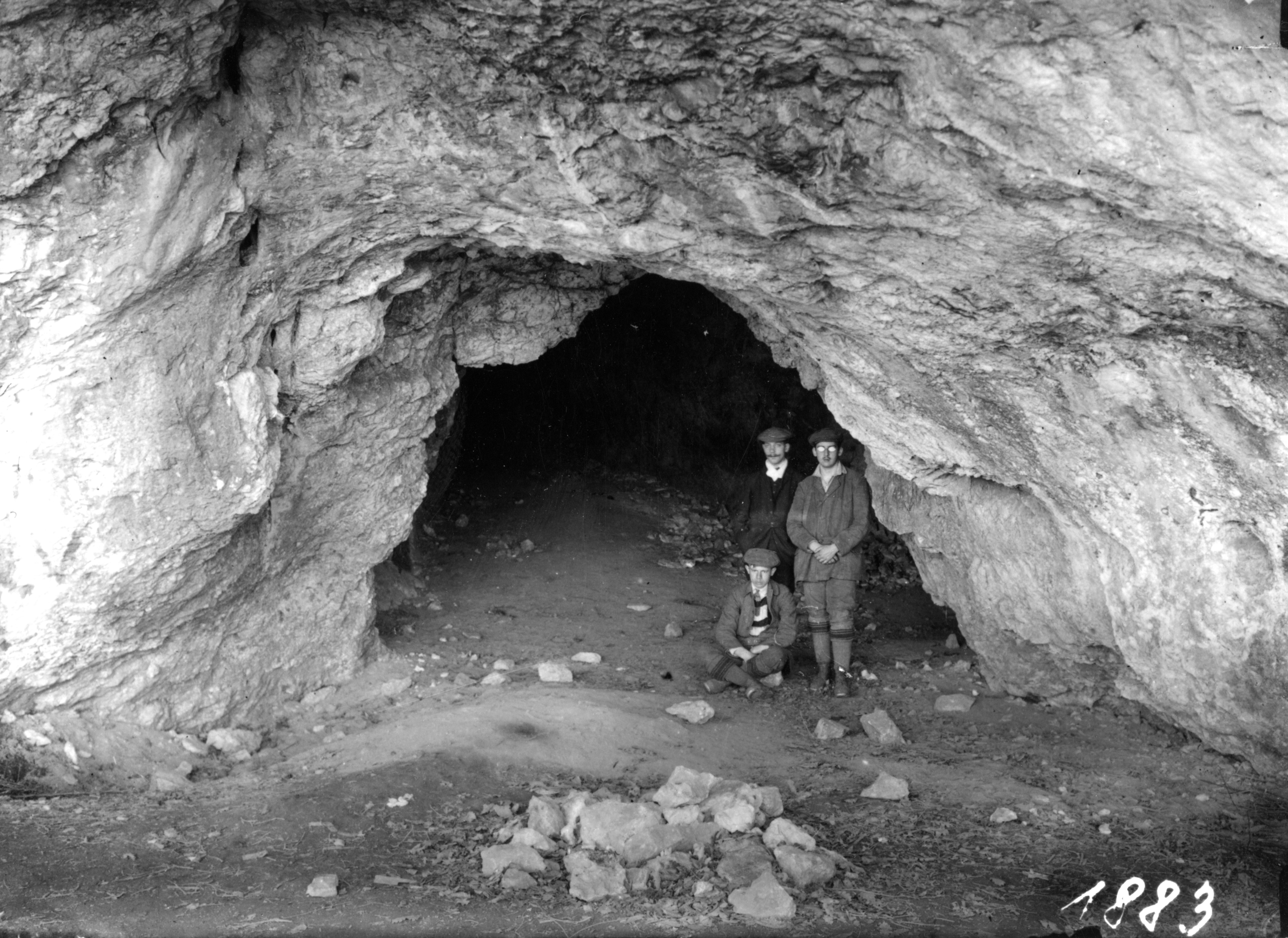 The entrance of Mackó Cave in 1912 (before the excavation).